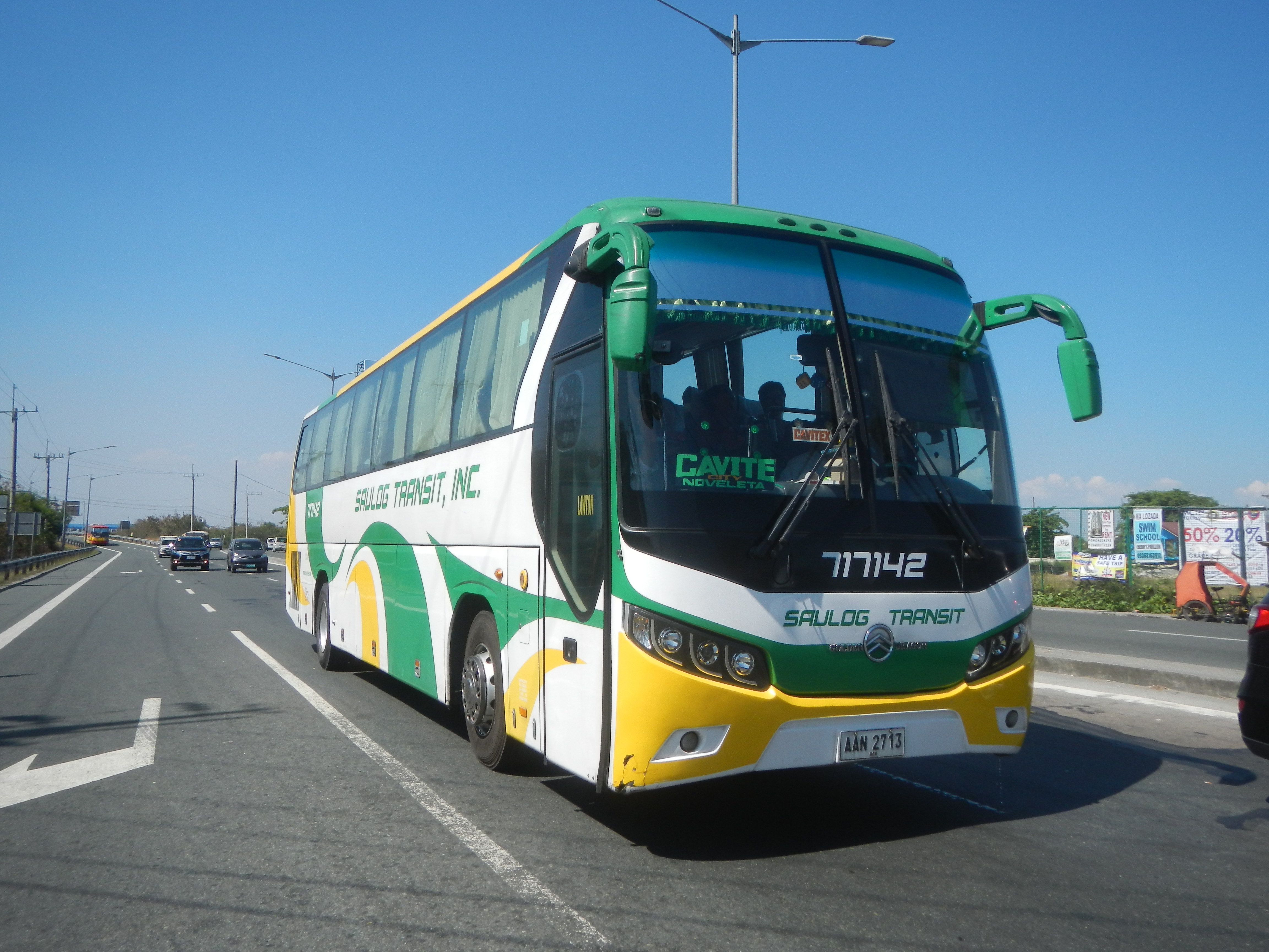 Antero Soriano Highway - General Tirona Highway Junction, Kanluran, Binakayan, Kawit, Cavite; Malamok Bridge (Kanluran, Binakayan, Kawit, Cavite) Km. 21+744 [1] Coordinates: 14°26'48"N 120°54'52"E to Tramo-Bantayan, Kawit, Cavite to Samala-Marquez, Kawit, Cavite to Balsahan-Bisita, Kawit, Cavite Barangays Balsahan-Bisita 14°26'56"N 120°55'21"E Binakayan-Aplaya & Binakayan-Kanluran 14°26'53"N 120°55'4"E, Tramo-Bantayan 14°26'48"N 120°55'6"E Samala-Marquez 14°27'8"N 120°55'13"E Congbalay-Legaspi 14°27'19"N 120°55'32"E, Kawit, Cavite along General Tirona Highway corner Antero Soriano Highway Antero Soriano Highway (Centennial Road, Kawit & Imus, Cavite).